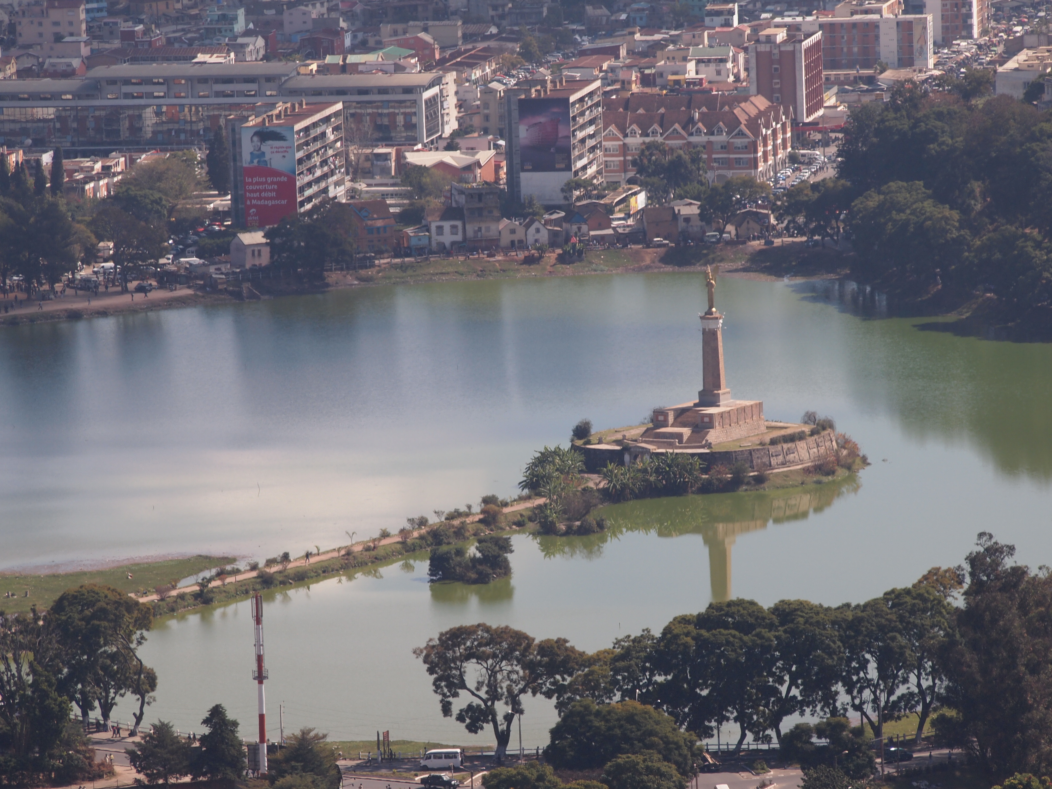 Detail of statue in lake anosy in Antananarivo Madagascar 2013